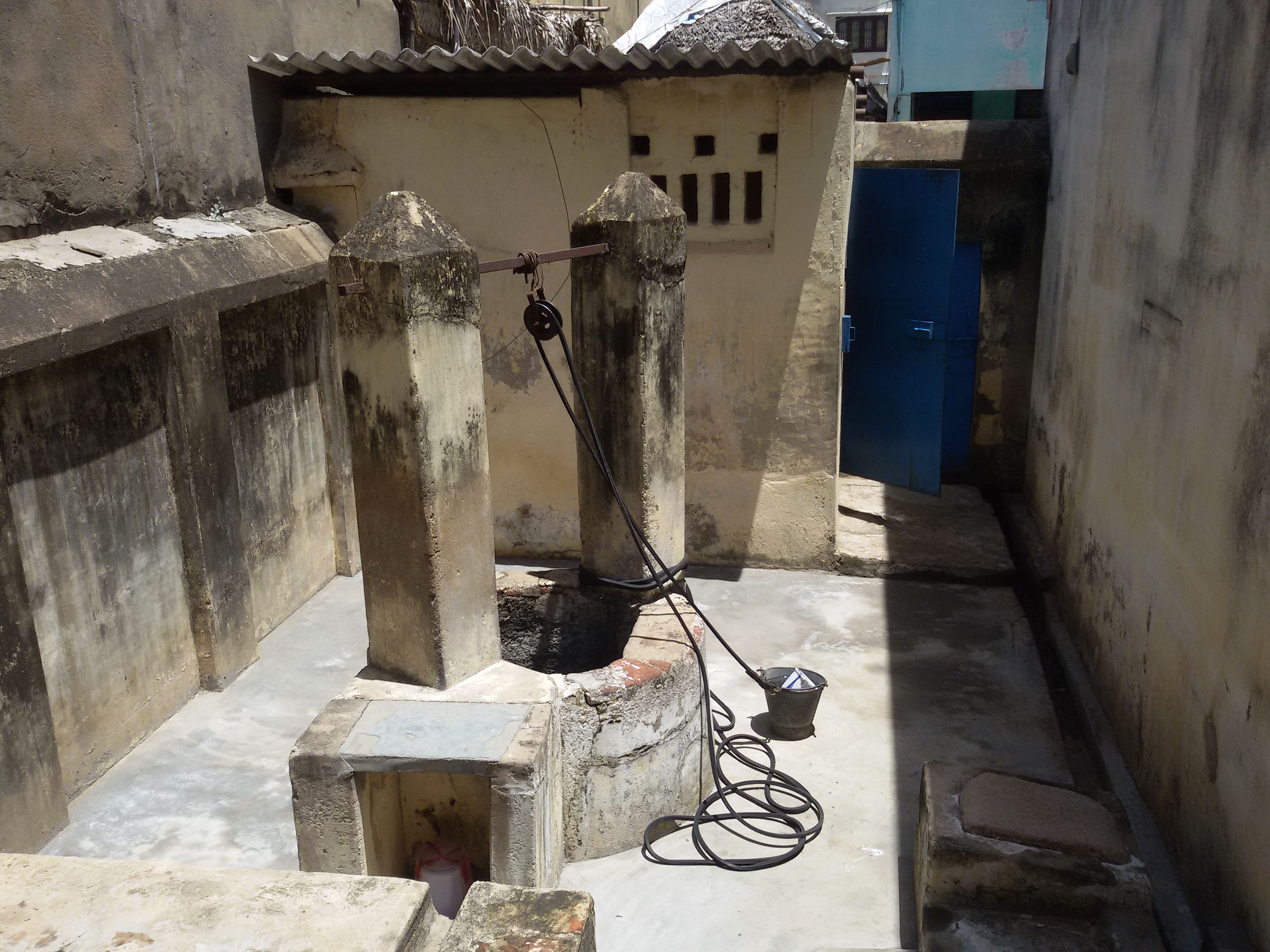 Ramanujan's house: Courtyard and well